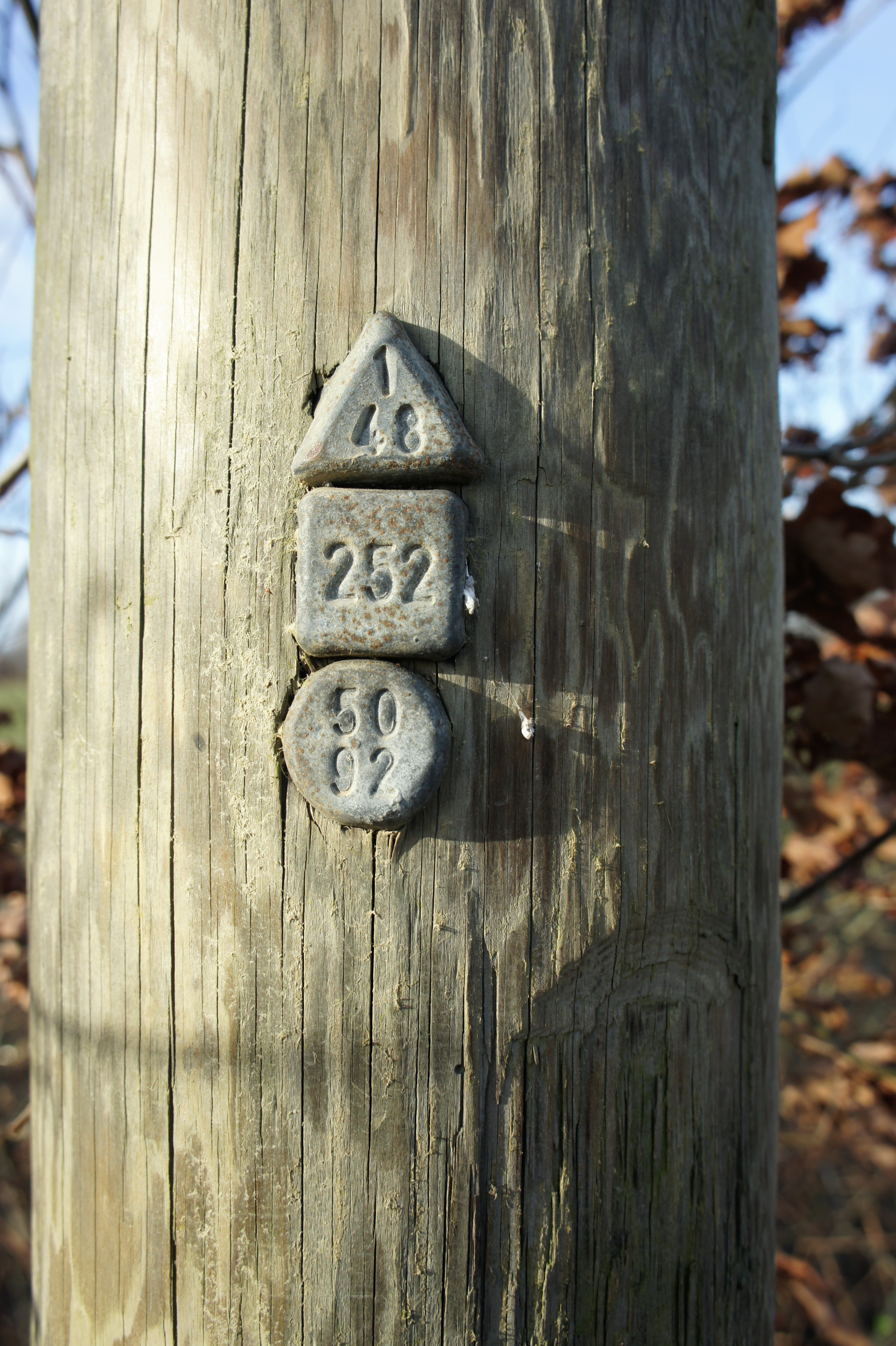 Telephone pole